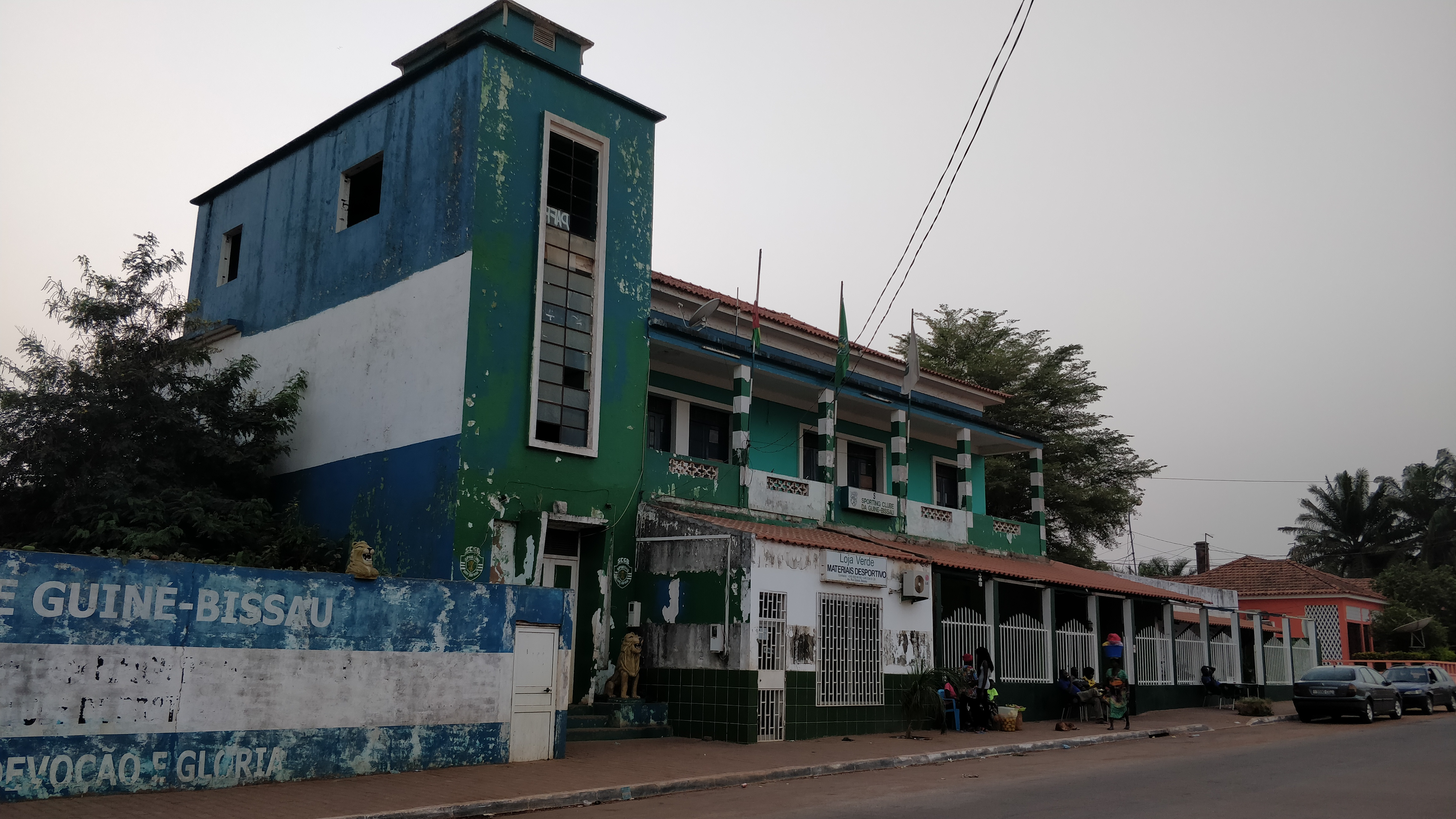 Seat of Sporting Bissau, Bissau